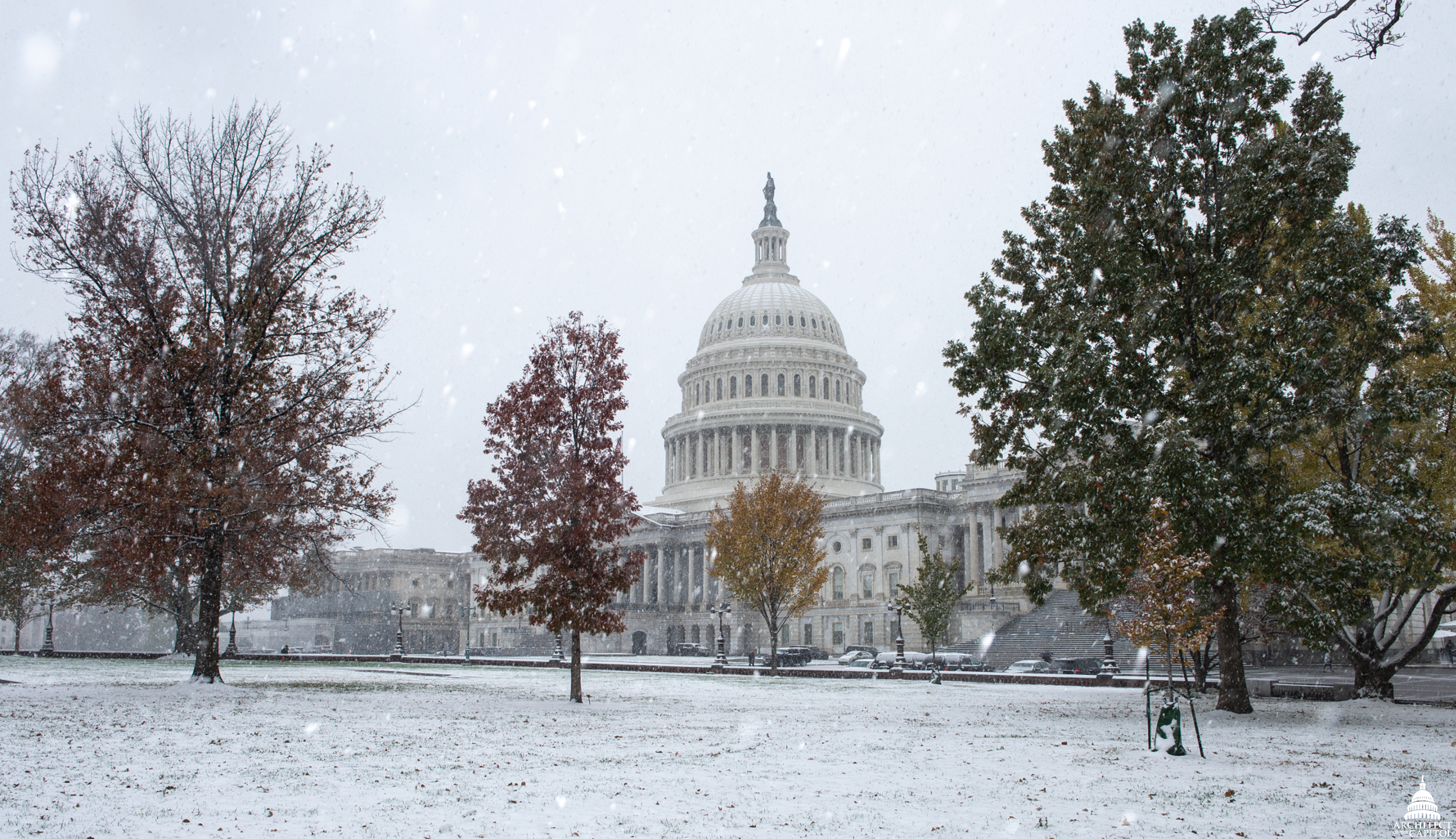 A seasonal blend of autumn and winter as the U.S. Capitol saw snowfall on November 15, 2018. This official Architect of the Capitol photograph is being made available for educational, scholarly, news or personal purposes (not advertising or any other commercial use). When any of these images is used the photographic credit line should read “Architect of the Capitol.” These images may not be used in any way that would imply endorsement by the Architect of the Capitol or the United States Congress of a product, service or point of view. For more information visit . Reference: 489425